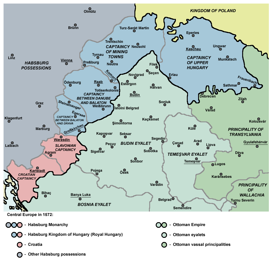 Map of Central Europe in 1572: Habsburg Kingdom of Hungary (Royal Hungary), Habsburg Croatia, Ottoman Budin Eyalet, Ottoman Temeşvar Eyalet.